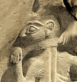 Imprisonned man of Umma on the Stele of Vultures